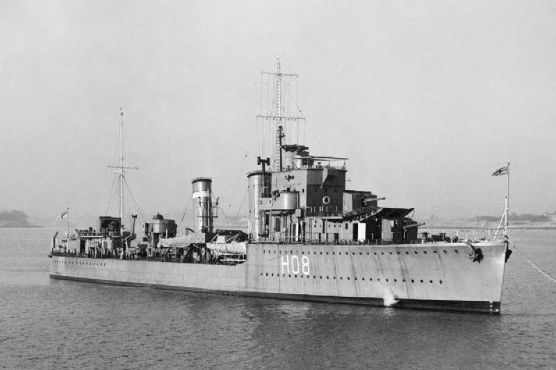 Photograph of British E class destroyer HMS Eclipse.